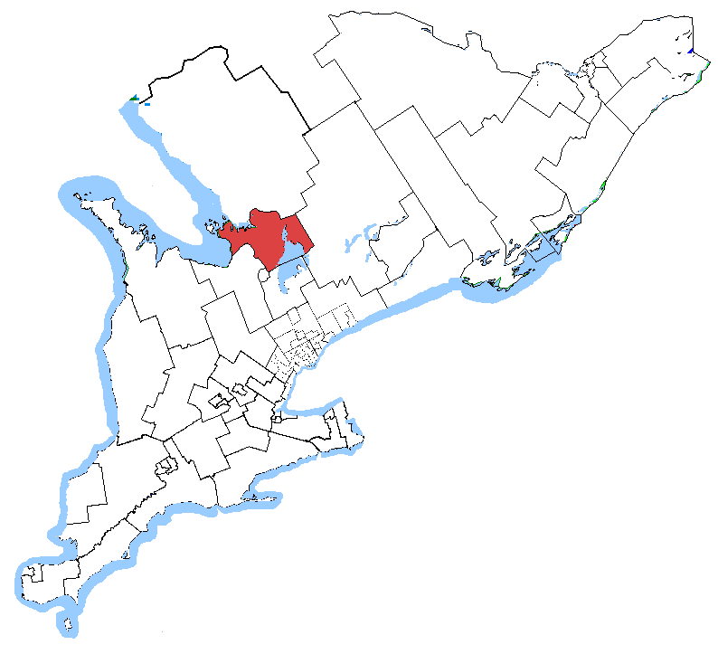 Map of the Simcoe North electoral district. Based on Earl Andrew's maps, created by SimonP.